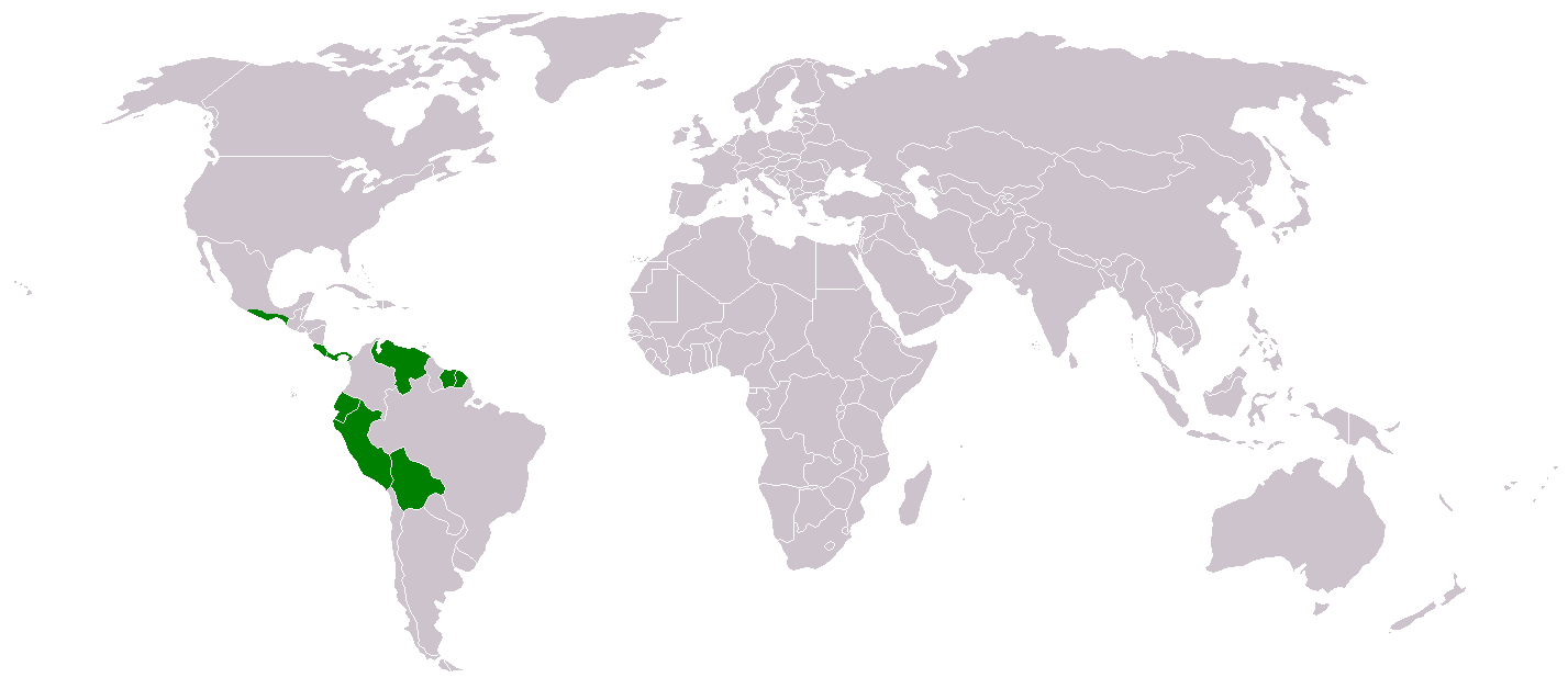 Acacia tenuifolia LegumeWeb and the GIMP. More detail from USDA-GRIN [1]